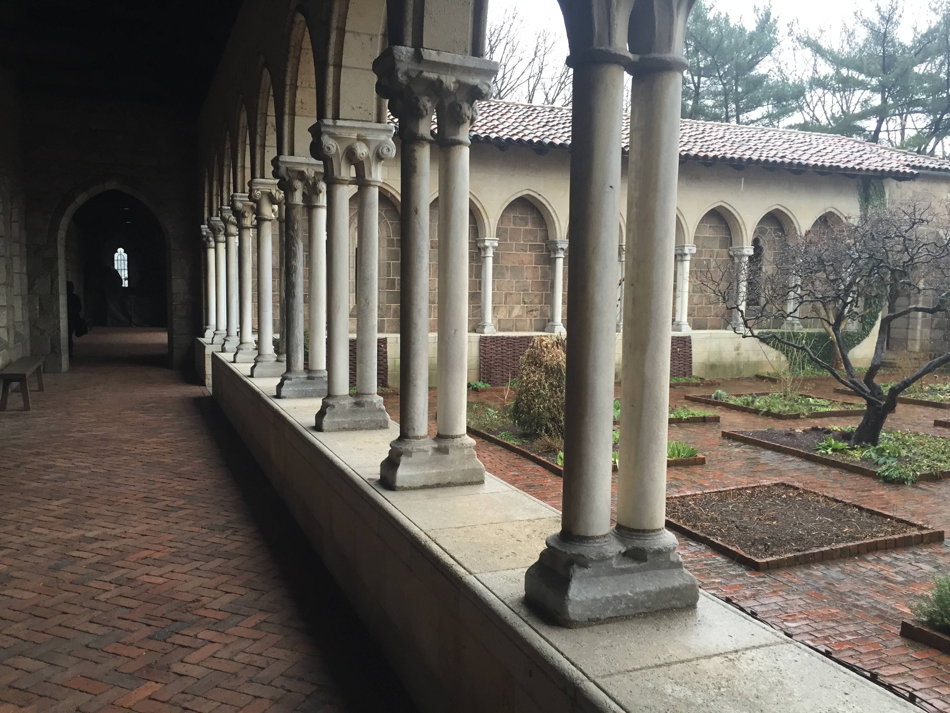 Bonnefont cloisters